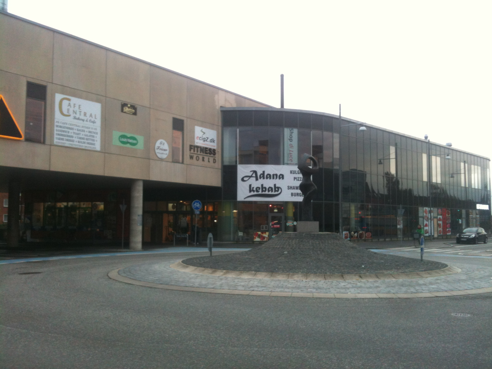 G2 Shopping Centre - Glostrup - Denmark